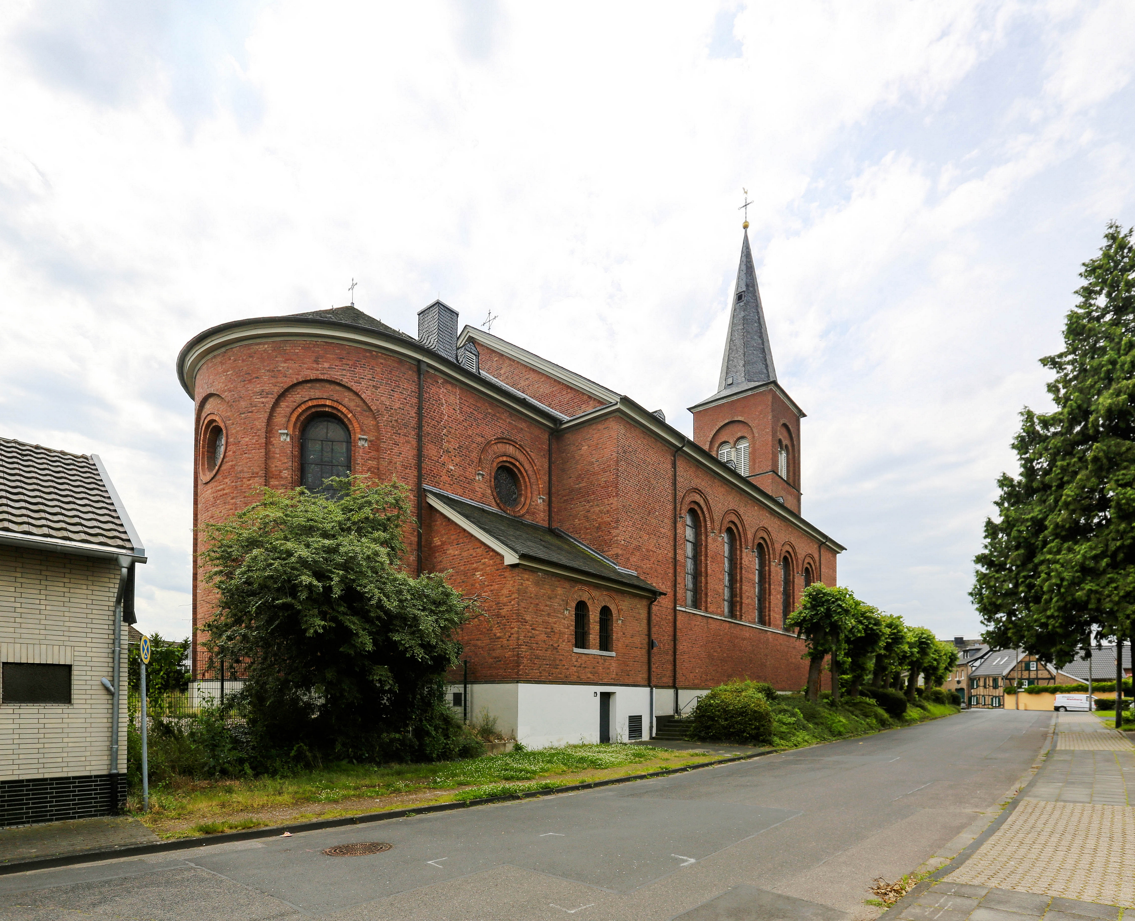 Sechtem (Bornheim), St. Gervasius and St. Protasius church